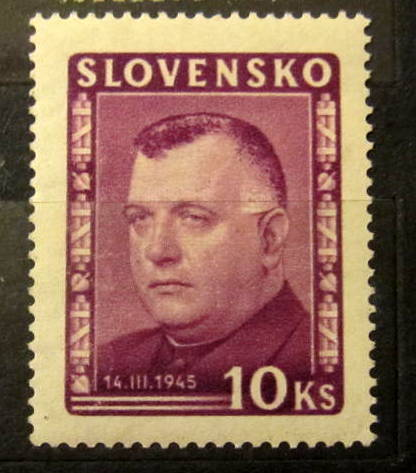 ThDr. Jozef Tiso, president of Slovak State between years 1939-1945, stamp of Slovak state issue 14.3.1945 in the value 10 slovak crowns.